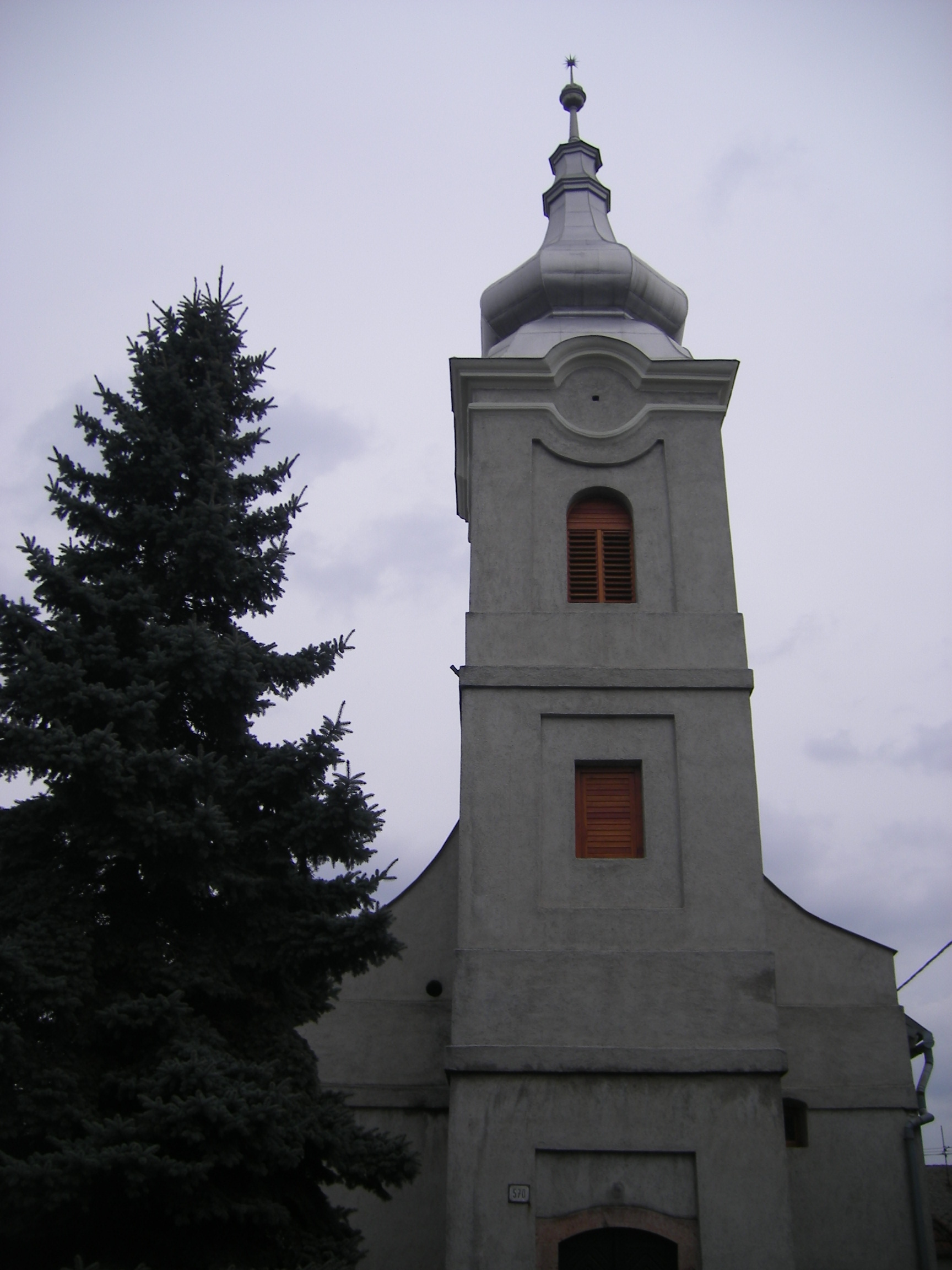 Marcelová, reformated church